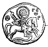 Coin of Roger of Salerno